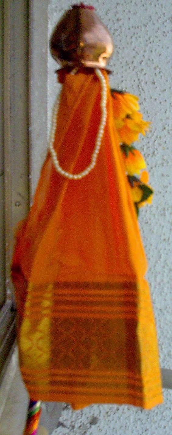 Gudhi